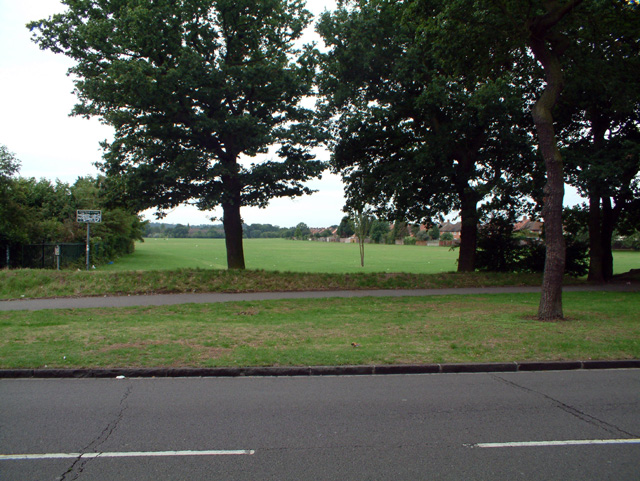 Ashburton Playing Fields, Croydon, from the north. In Monks Orchard, these playing fields, totalling 50 acres, run from Bywood Avenue in the north to Chaucer Green in the west and Woodville Avenue in the east, the houses in Stroud Green Way back onto the western boundary. The Chaffinch Brook runs north through the Playing Fields. Another view, from the south, is in TQ3566.